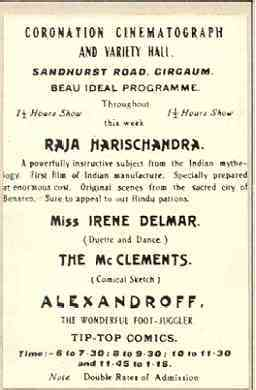 Publicity poster for film, Raja Harishchandra (1913), India's first full length completely indeginously made, feature film.